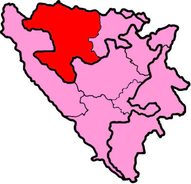 The first electoral unit of Republika Srpska (HoRBiH) shown within Bosnia and Herzegovina.